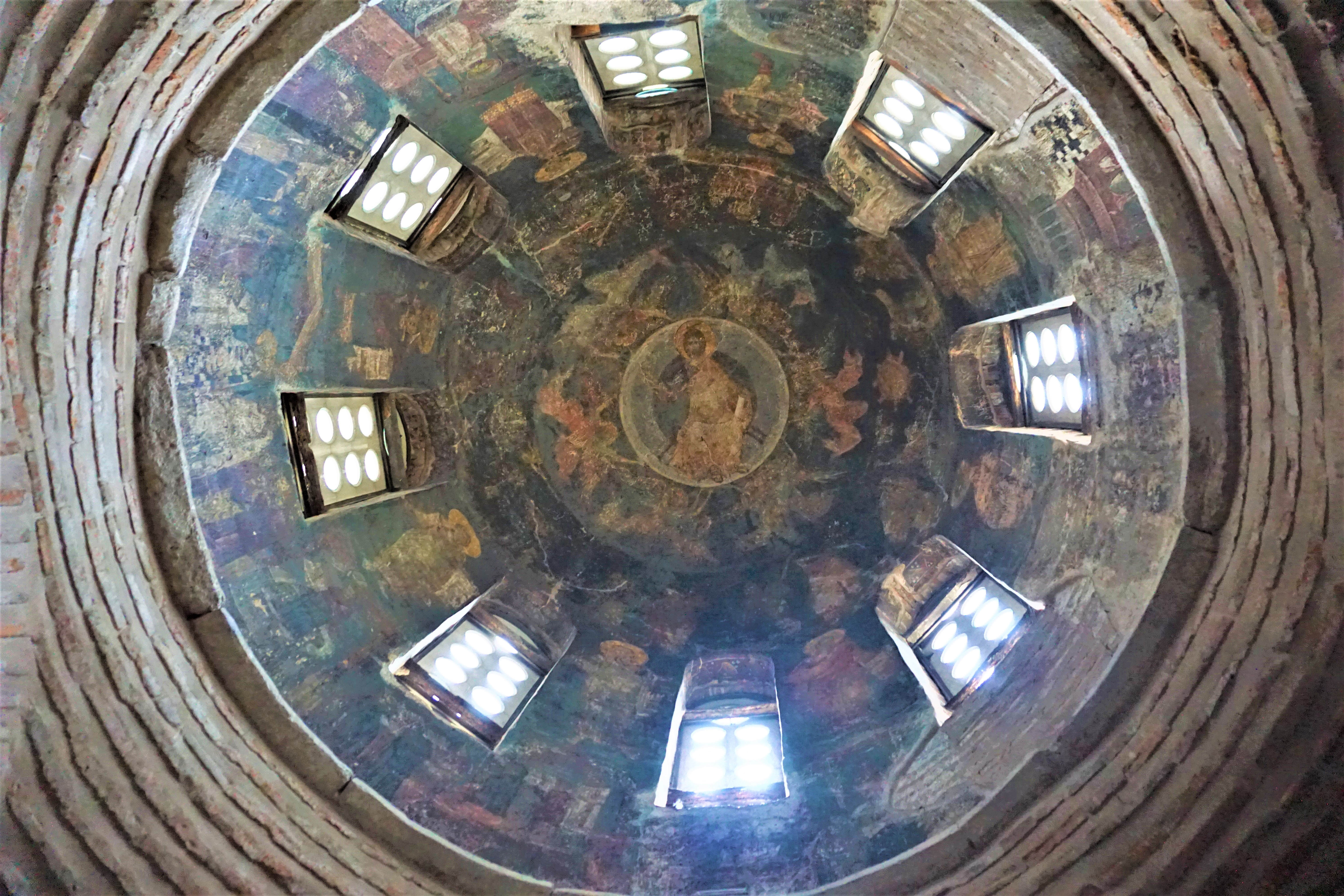 Church of Metamorphosis tou Sotiros (Thessaloniki) by Joy of Museums